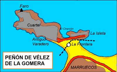 Map of Velez de la Gomera Rock Fortress, Spanish possession in Africa